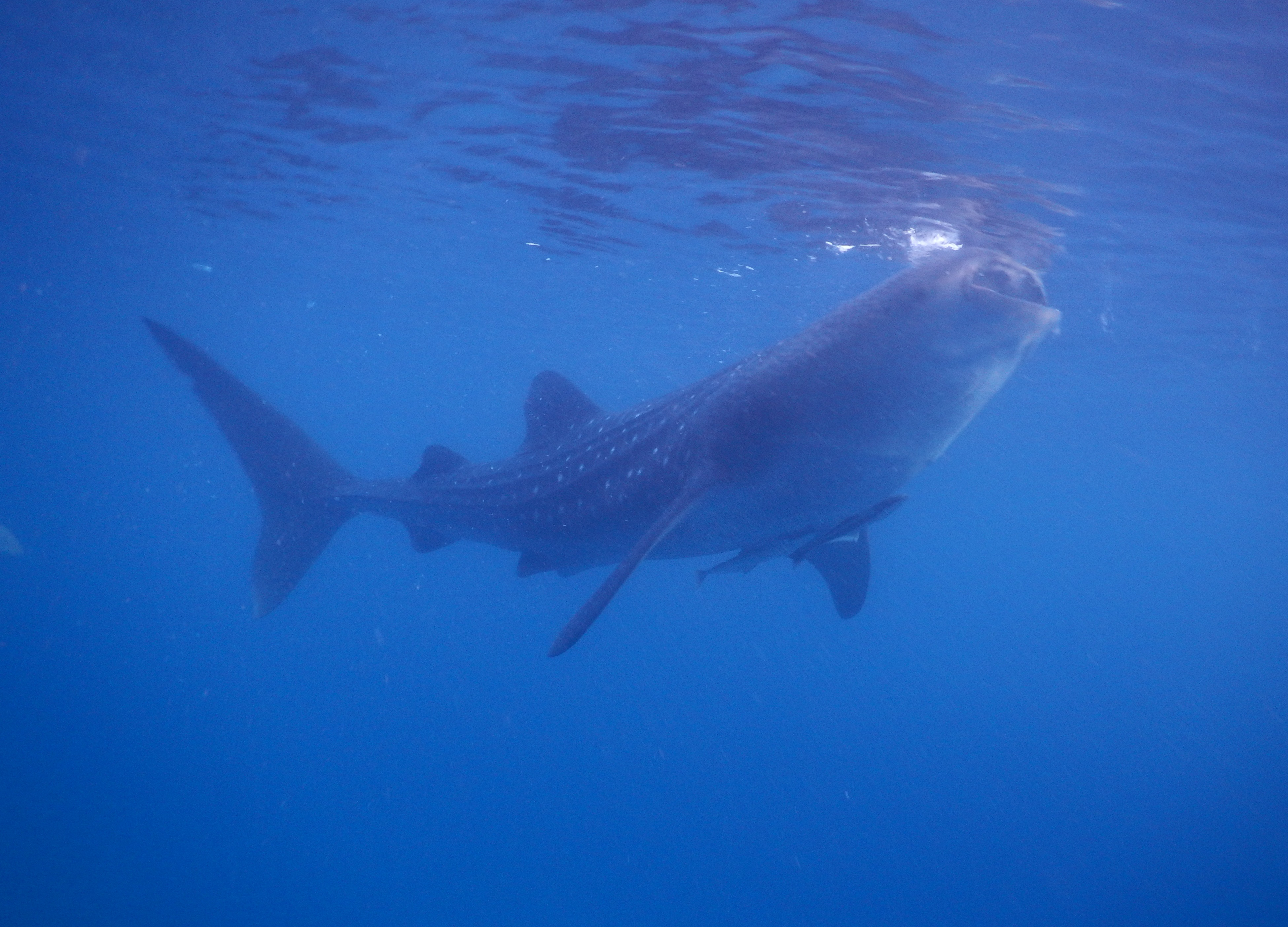 Whale shark, Oslob, Philippines